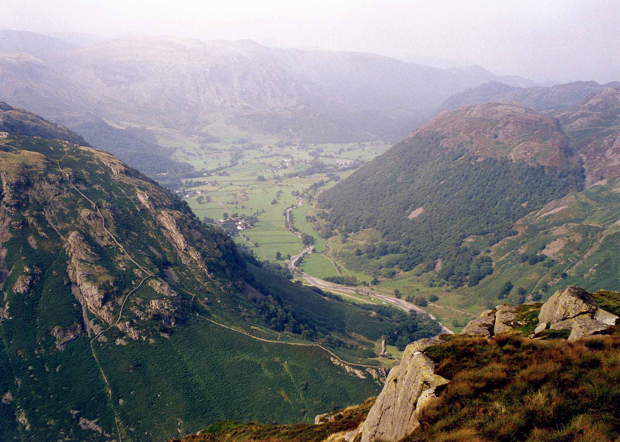 Personal photograph taken by Mick Knapton 21:01, 16 September 2007 (UTC)